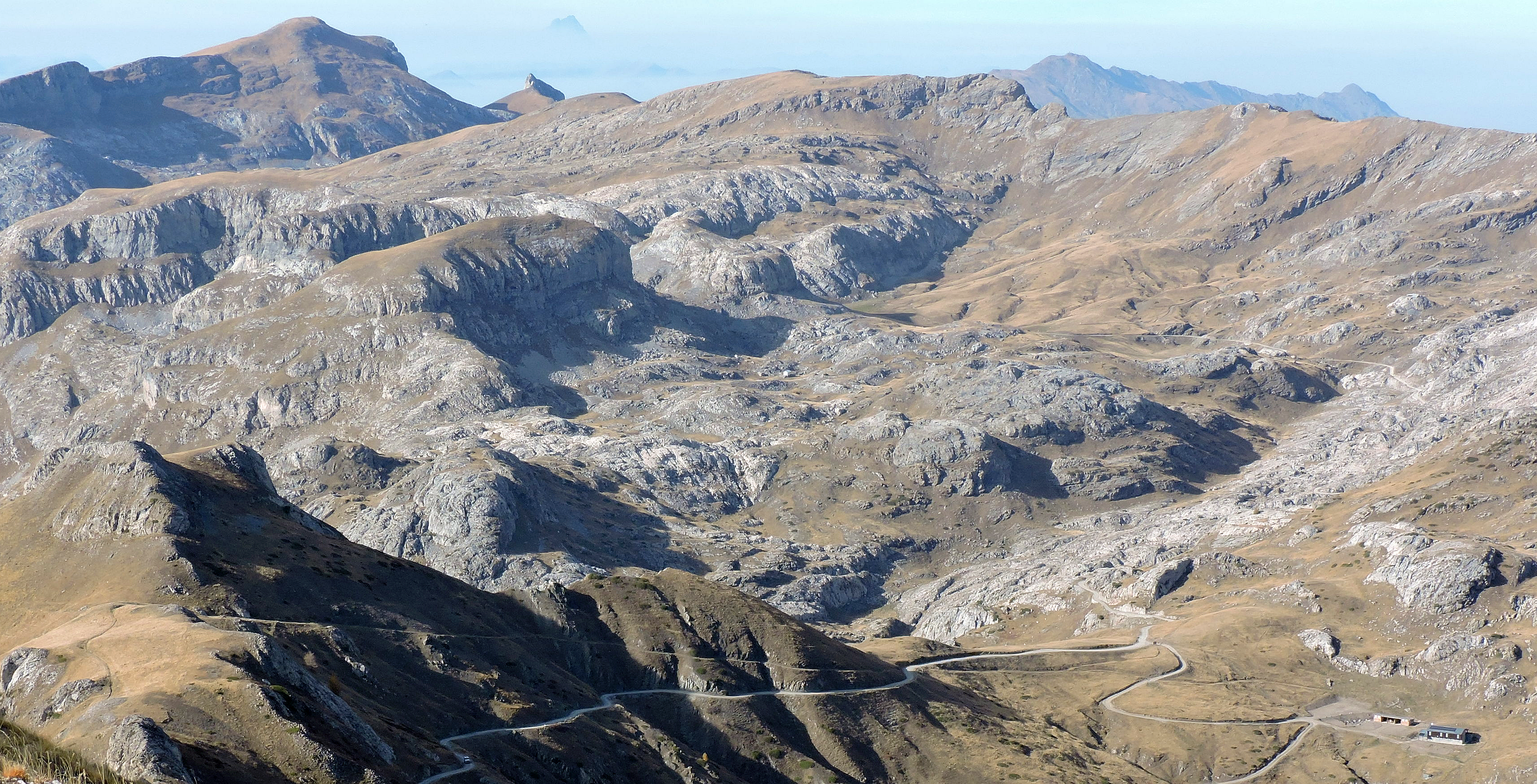 Colle dei Signori (Ligurian ALps) from Cima di Pertegà; on it left the Cime de Capoves, at its right rifugio Don Barbera